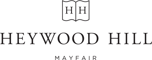 Logo of Heywood Hill, a bookshop in Mayfair, London